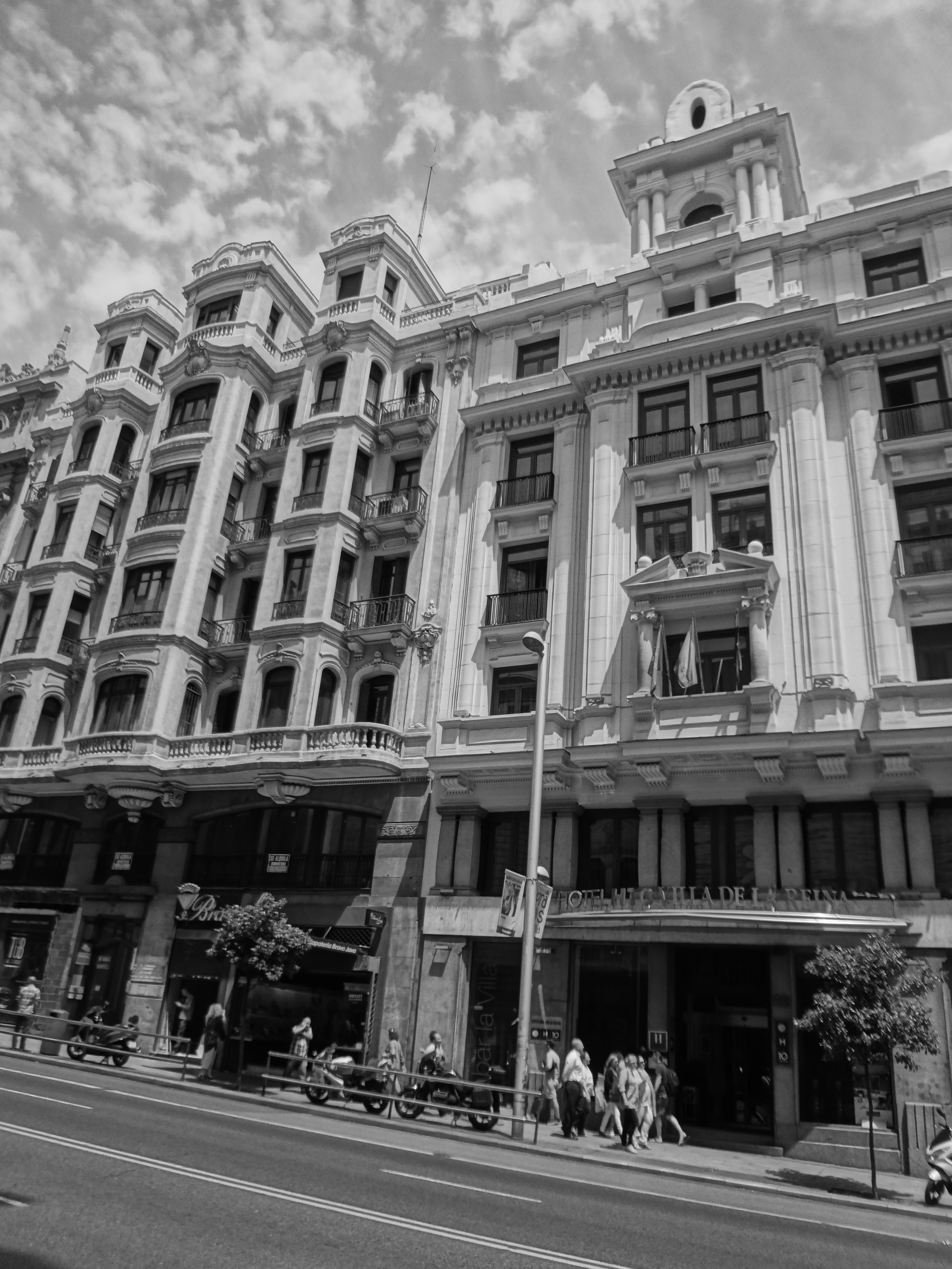 Gran Via, 22 Madrid Spain